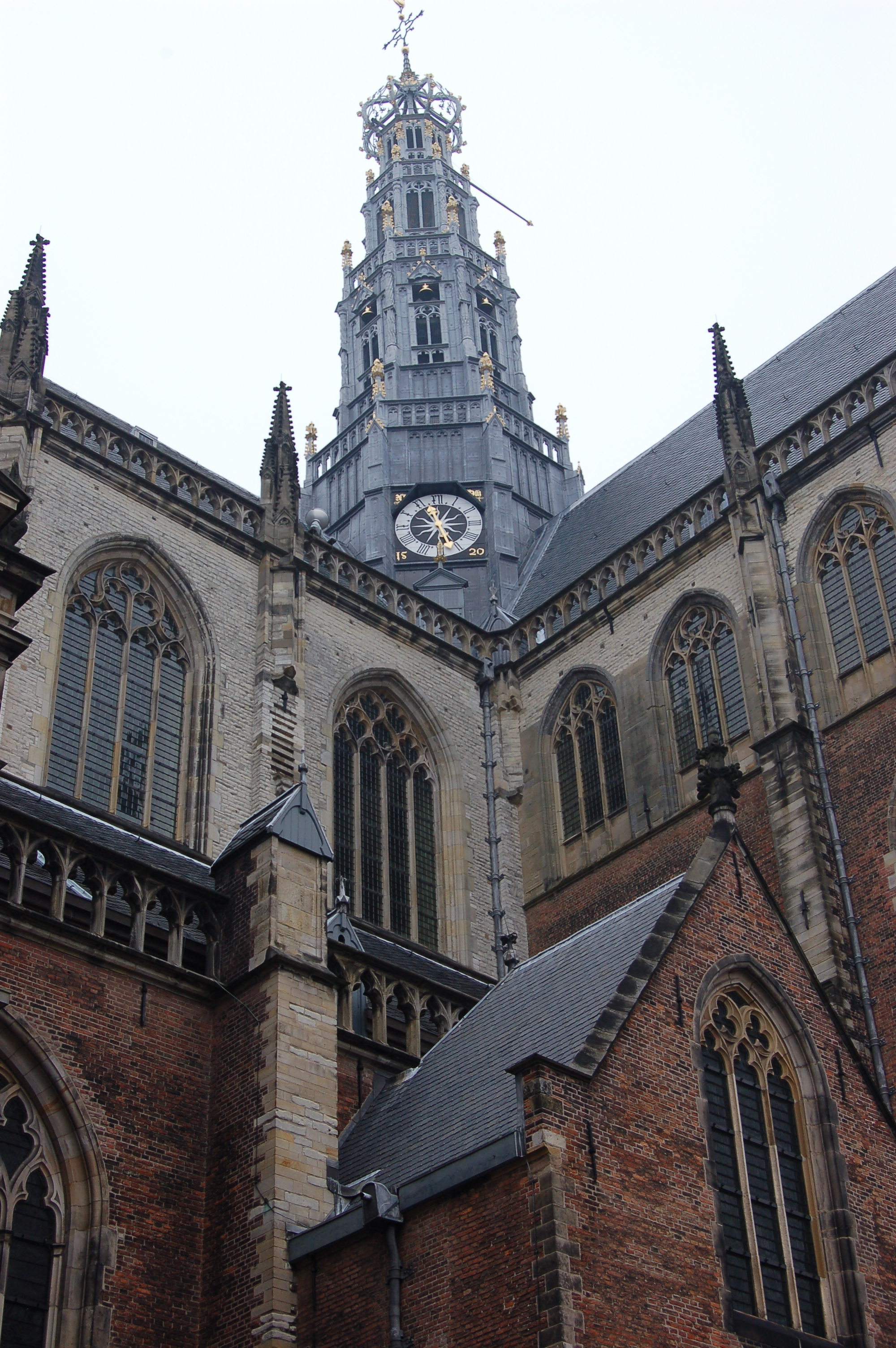 The Saint Bavo Church (Sint-Bavokerk) in Haarlem, The Netherlands.